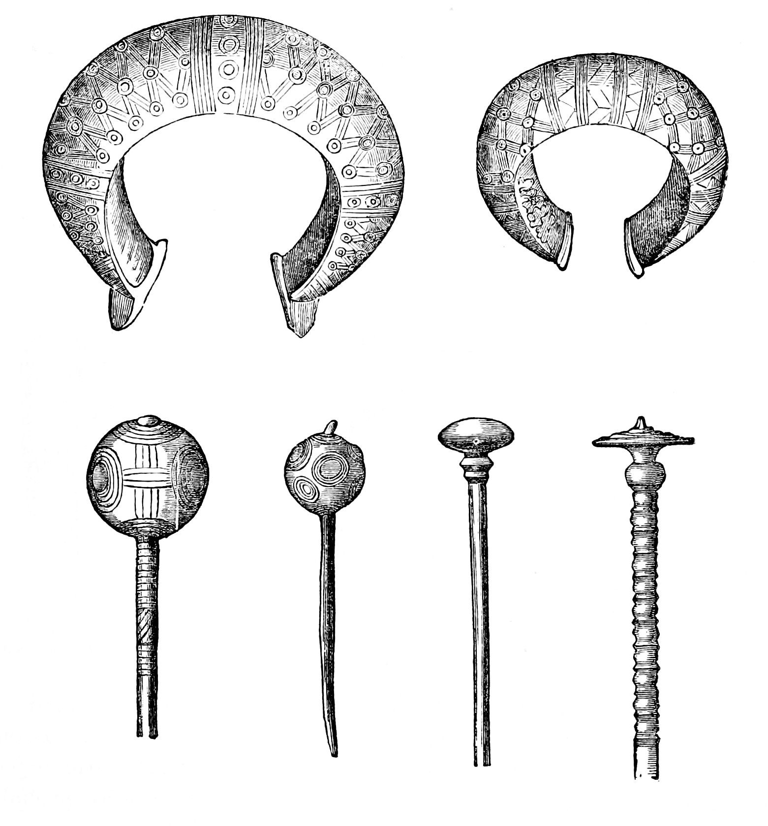 Bracelets and Bronze Hair-pins from Switzerland.